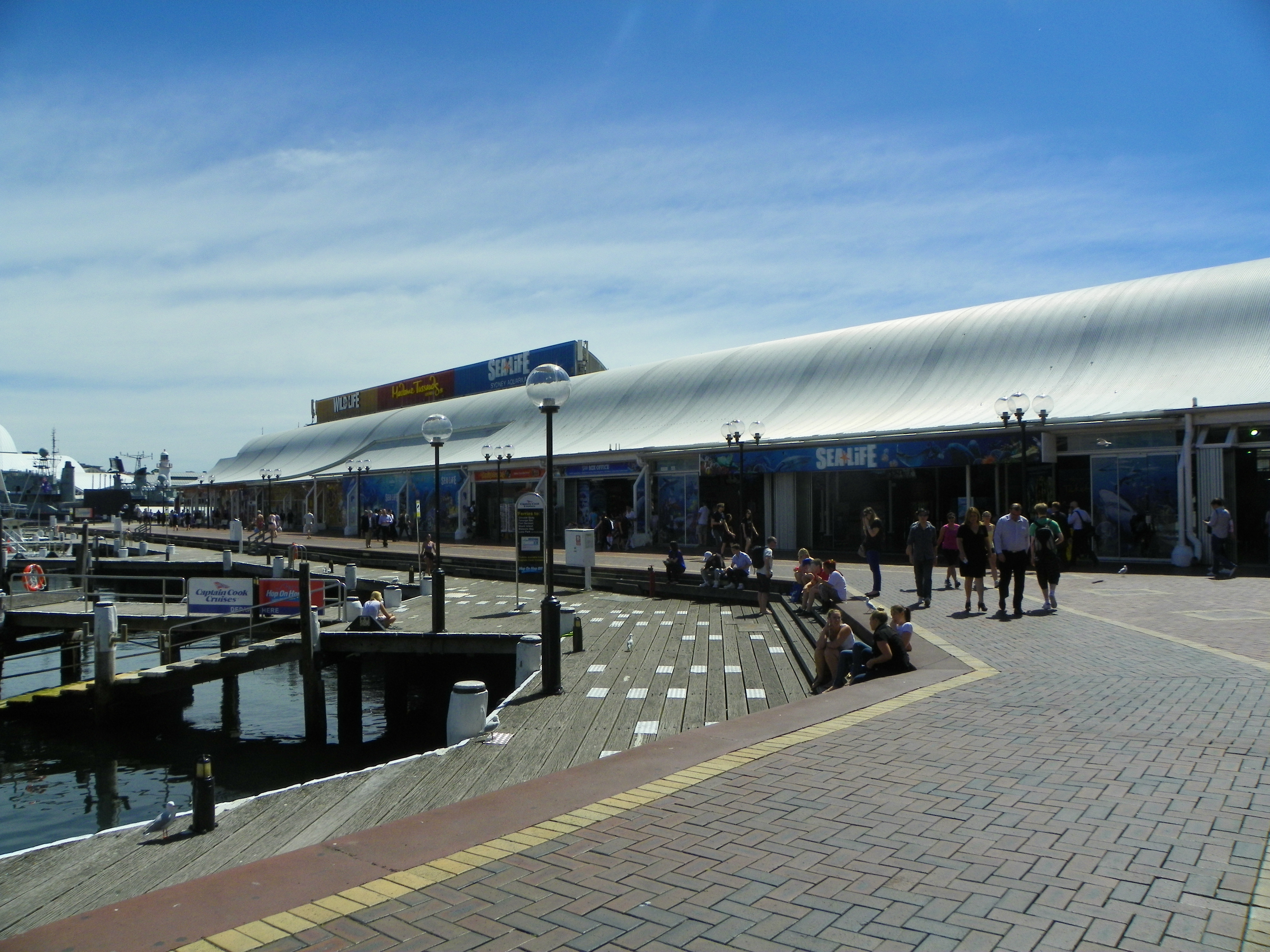 Acuario De Sydney, Australia